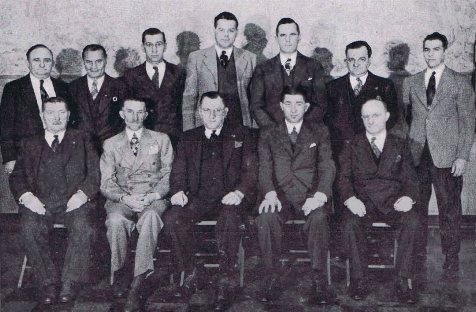 The board members of the Turners in Holyoke, Massachusetts in 1946, from left to right, in back, Oscar Klopfer (House Committee), Emil Hallbauer (School Committee), Edward Demersky (Maintenance Committee), Howard Hallbauer (Camp Jahn Committee), Chester Willett (First Class Leader), William Kurth (Sargeant-at-arms), Robert Dobbins (Second Class Leader); seated in front, William Neumann (Vice President), Theodore Sattler (Treasurer), Edward Kurth (President), George Hohenberger (Secretary), Richard Klopfer (Financial Secretary).